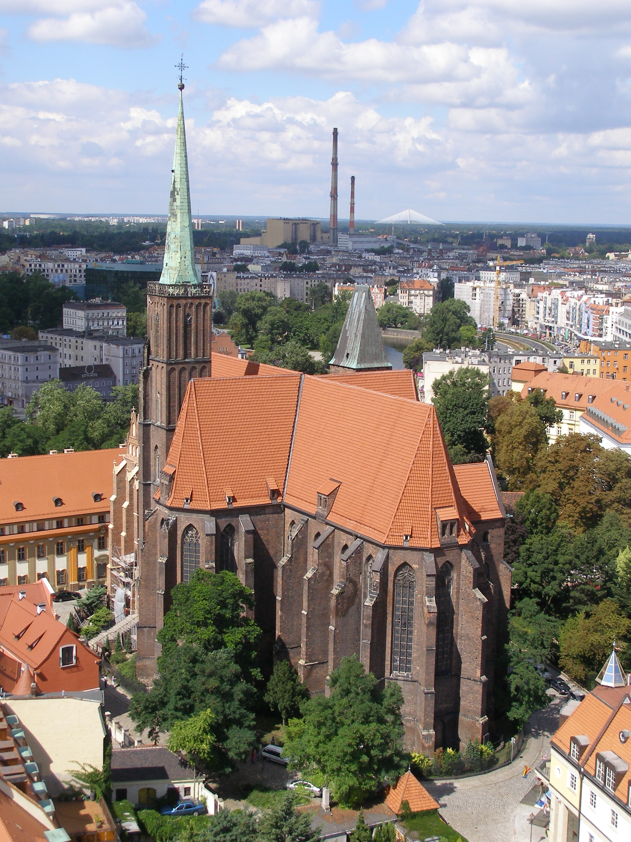 Wrocław - Holy Cross church, view from the cathedral tower